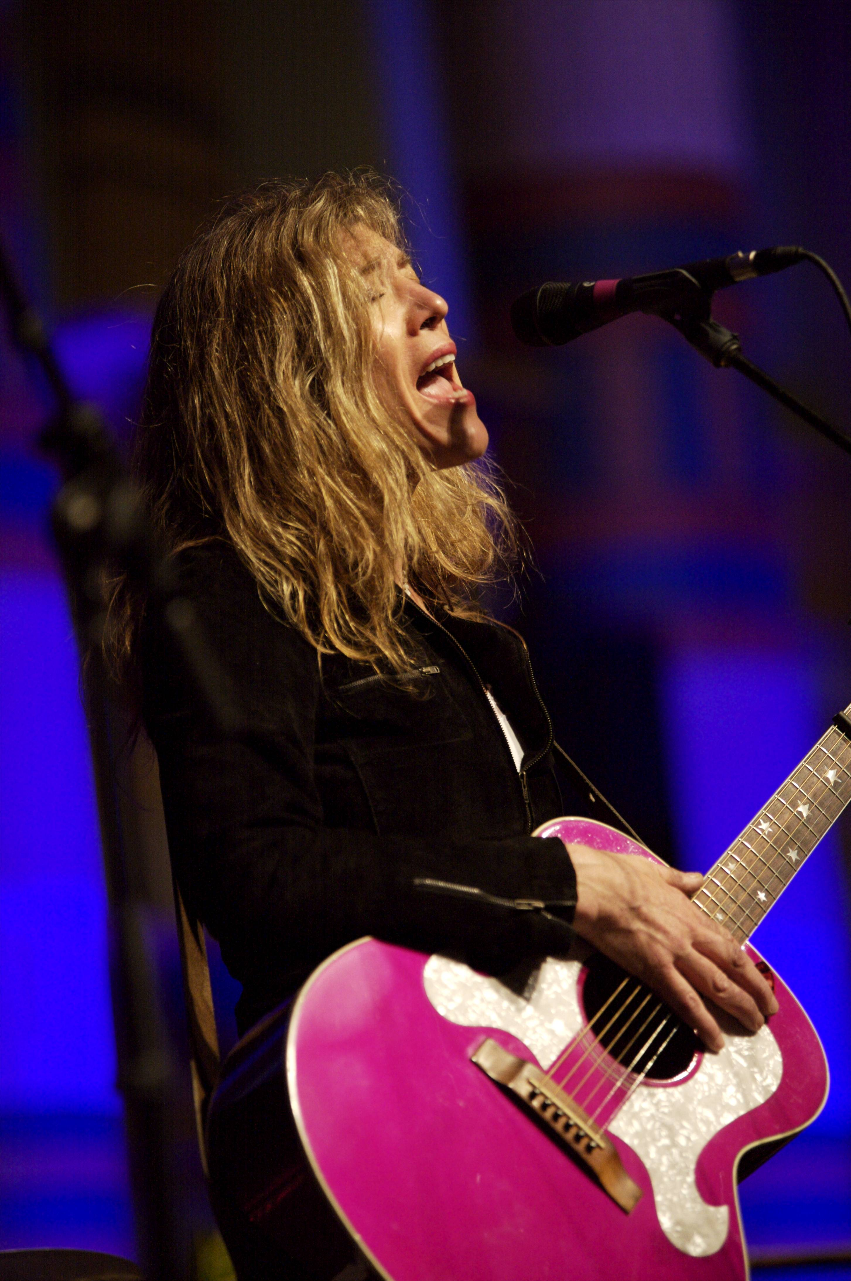 "Night of Sacred Blues" MusiCares benefit concert in downtown Nashville feat. Kevin Max, Dave Perkins, Buddy Miller, Ashley Cleveland and others.